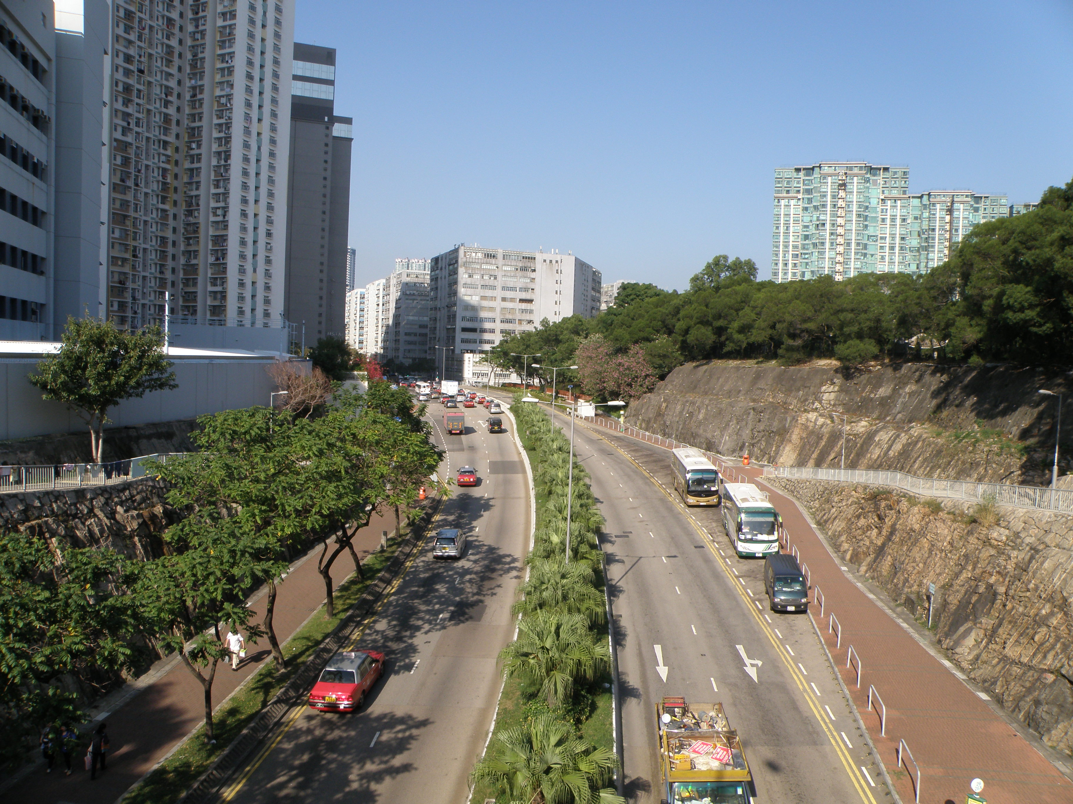 Hung Hom Road in Whampoa, Hong Kong.